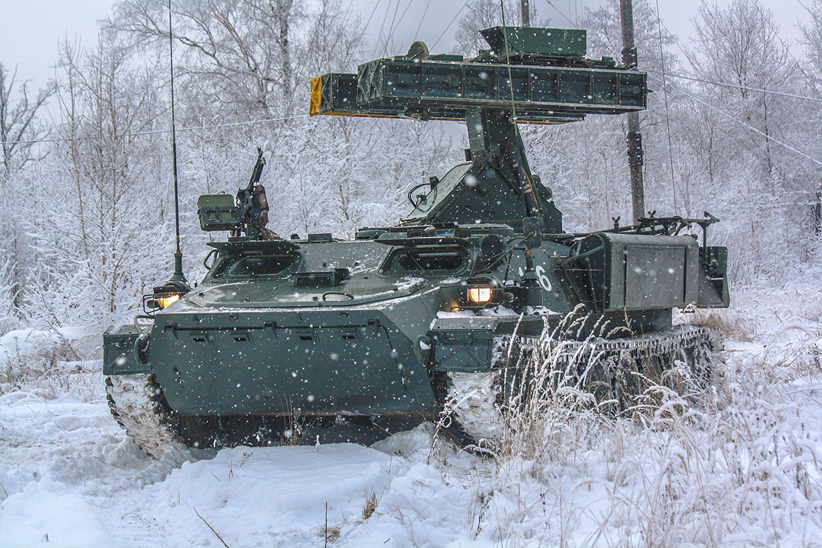 1st Guards Anti-Aircraft Rocket Regiment. 9K35MN Strela-10MN